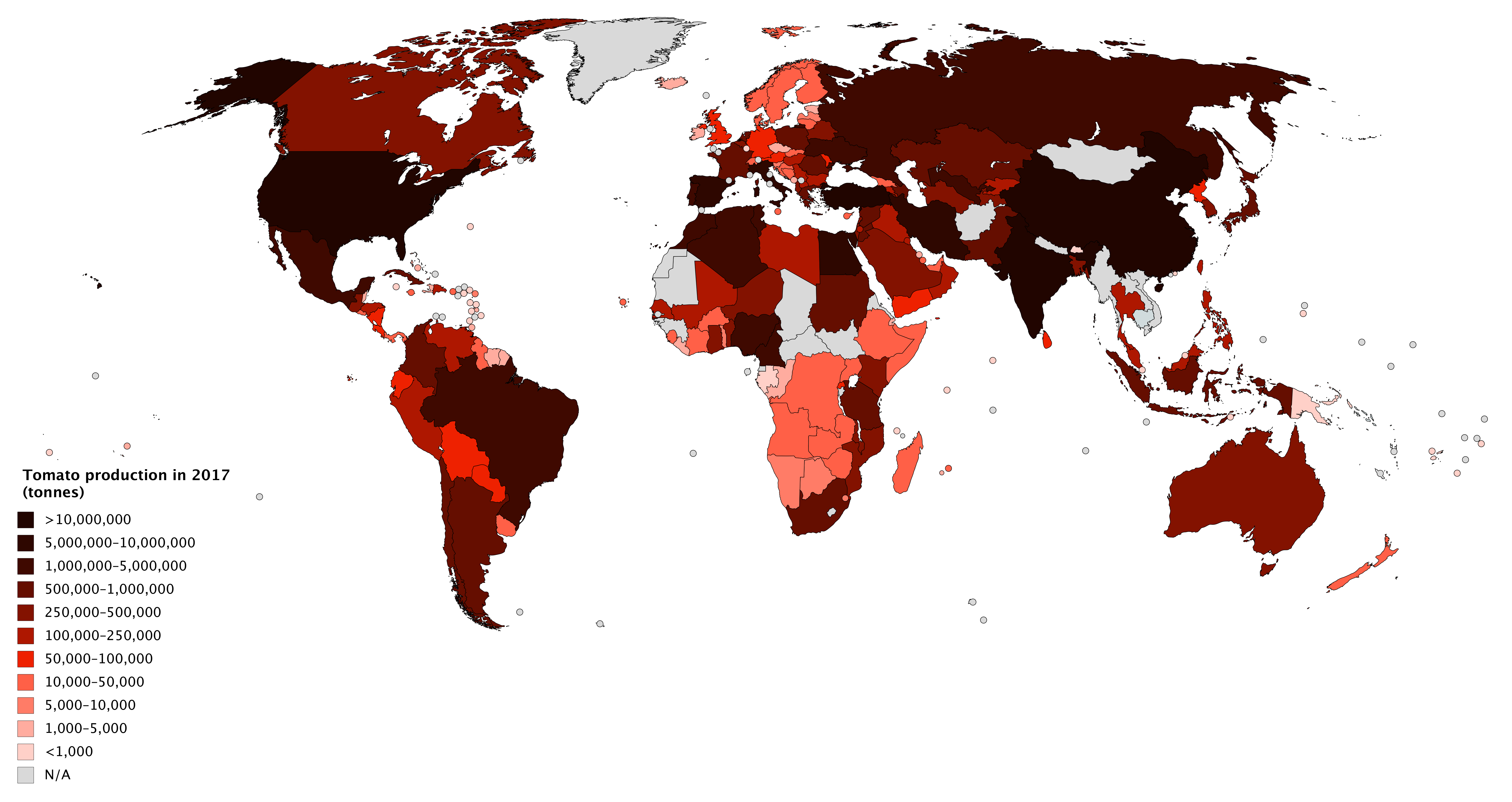 A choropleth map showing countries by tomato production in tonnes in 2017, based on data from the Food and Agriculture Organization Corporate Statistical Database (FAOSTAT).